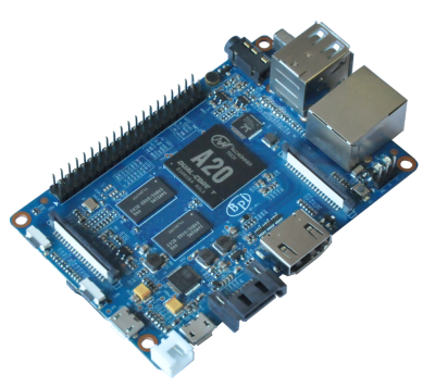 BananaPi-M1+